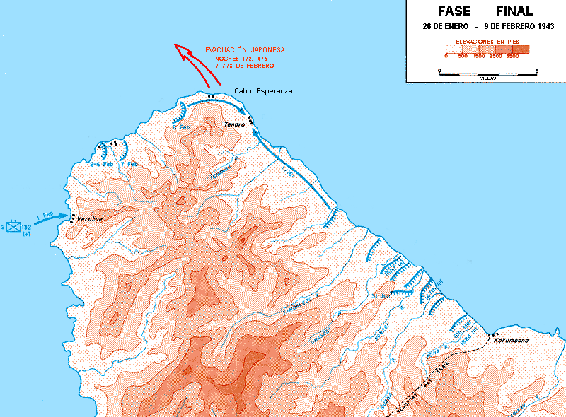 Final actions in Battle of Guadalcanal, Jan 26-Feb 9, 1943